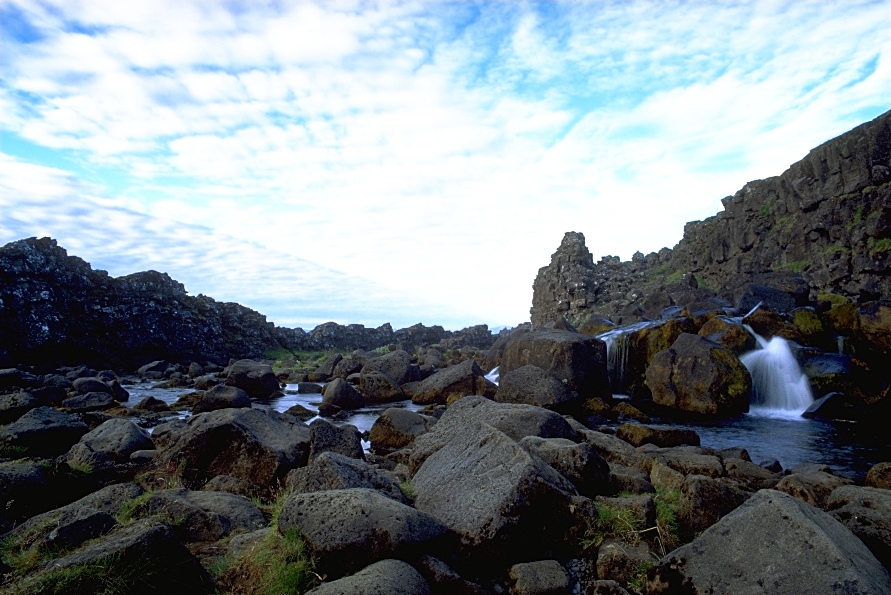 Canyon of Öxará, Þingvellir national park, Iceland Photo was taken using the following technique: Film: Fuji Velvia Lens: 2.0/20 Filter: Body: Minolta 600si Support: Gitzo Monotrek Image with Information in English Bild mit Informationen auf Deutsch